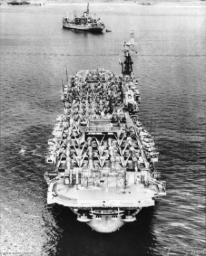 Stern view of HMAS Sydney during her 1953 deployment to Korea